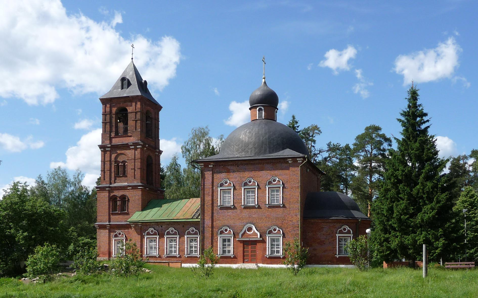 Church of St. Nicholas in the village of Makarovo (1881—1883). Municipality Chernogolovka. Moscow Oblast. Russia. Architect Zborzhevsky.